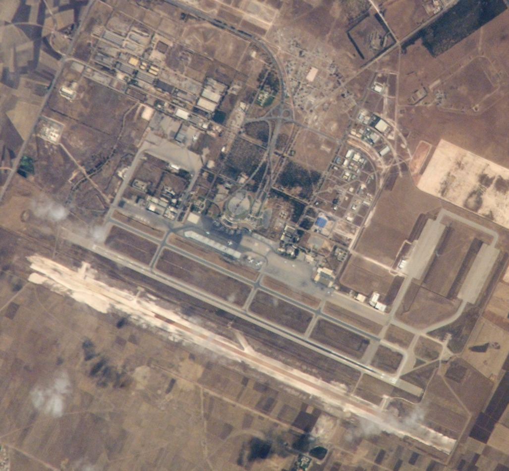 Mohamed V Airport, Morocco